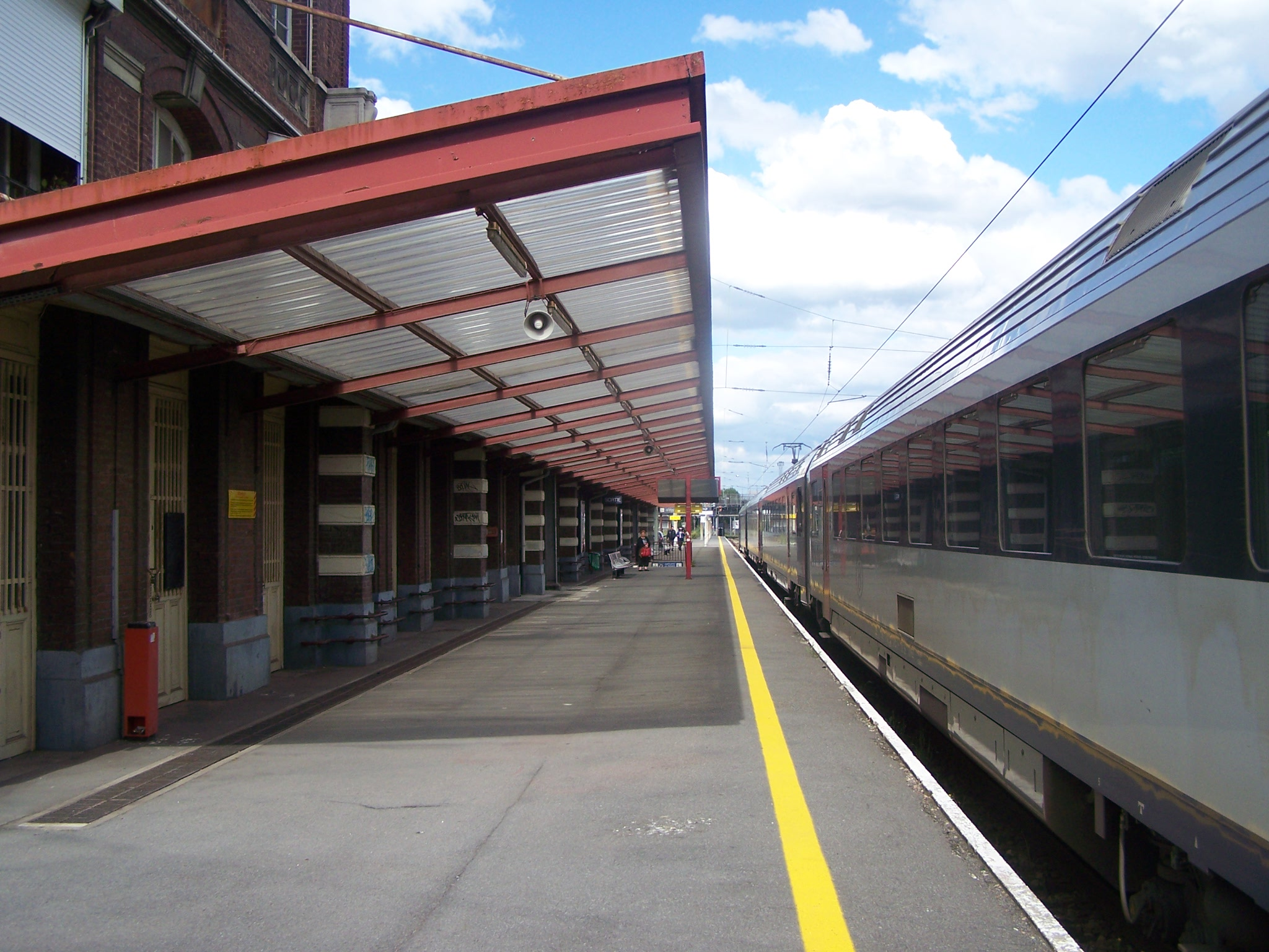 Platforms of Tourcoing station in Nord, France. Belgium train to Ostende here stopped.